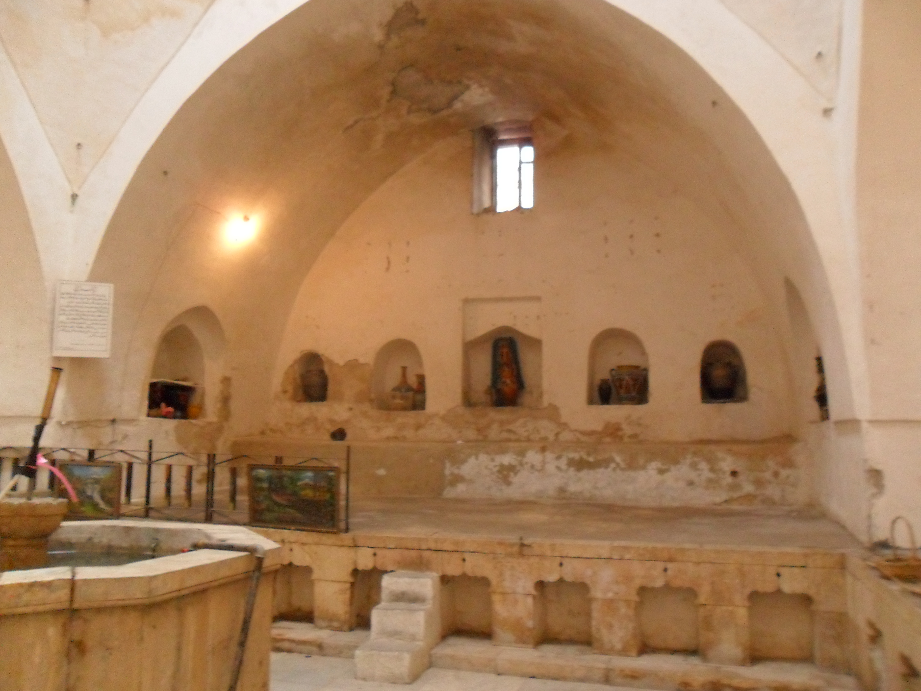 Room in a ottoman hammam in Salamiyah, Syria, that is used today as a museum.